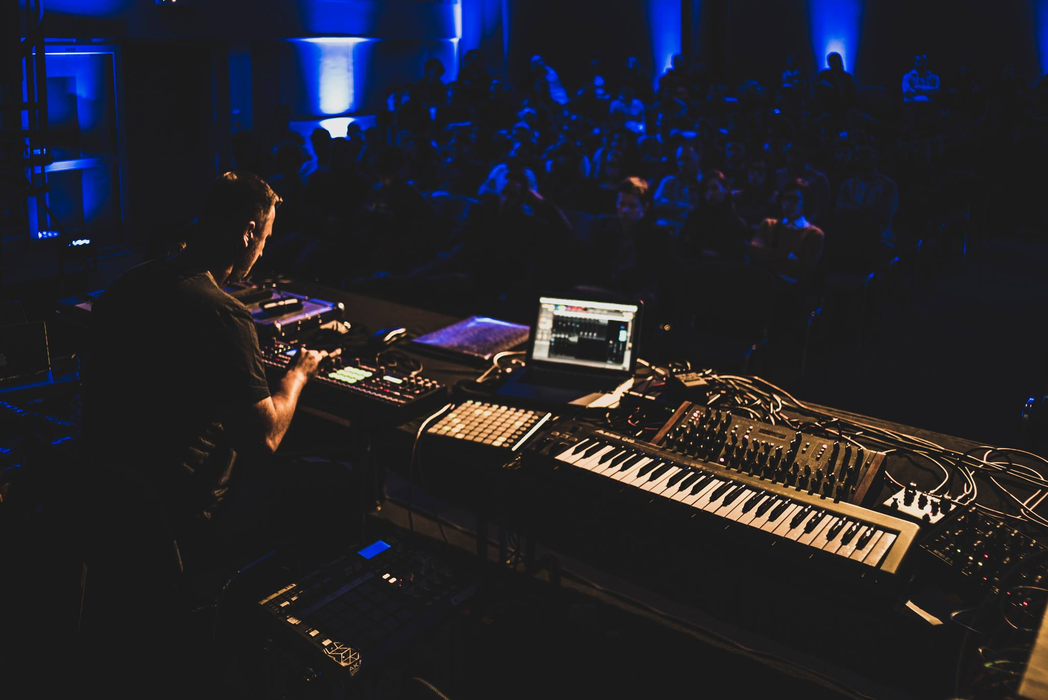 3rd birthday party of OFF Radio Kraków - Minoo is playing Live Act